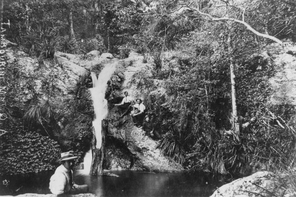 Cedar Creek Falls on Tamborine Mountain, Queensland, ca. 1917